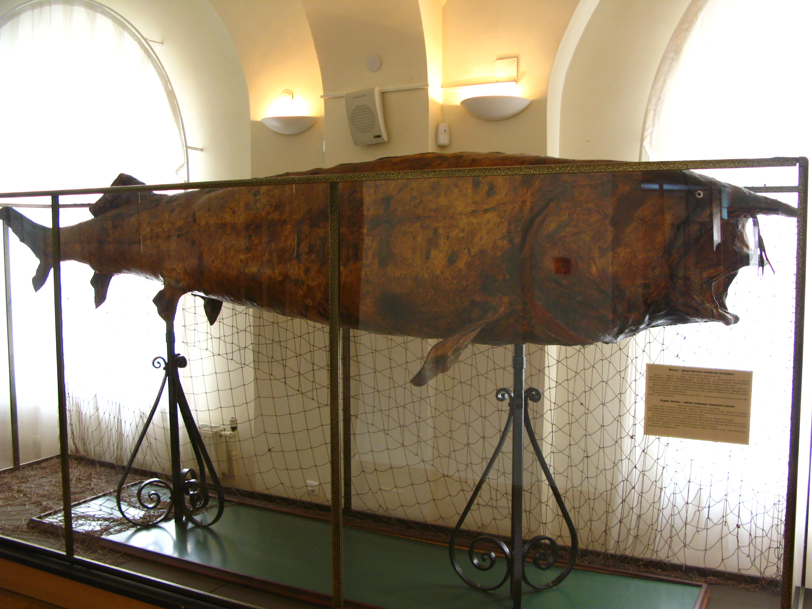 1000 kg and 4,17 m Beluga (Serbian name: moruna) from Volga river in National museum of Tatarstan, Kazan, Russia.